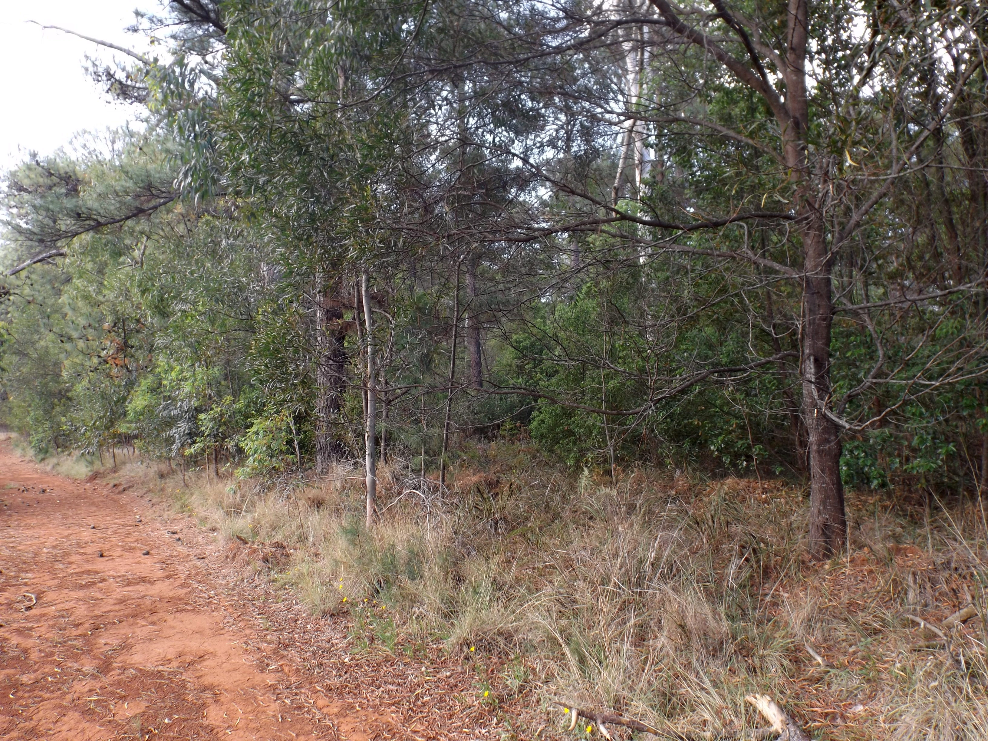 Photo of vegetation in the Pechey Forestry Arboretum at Pechey, Queensland, Australia.